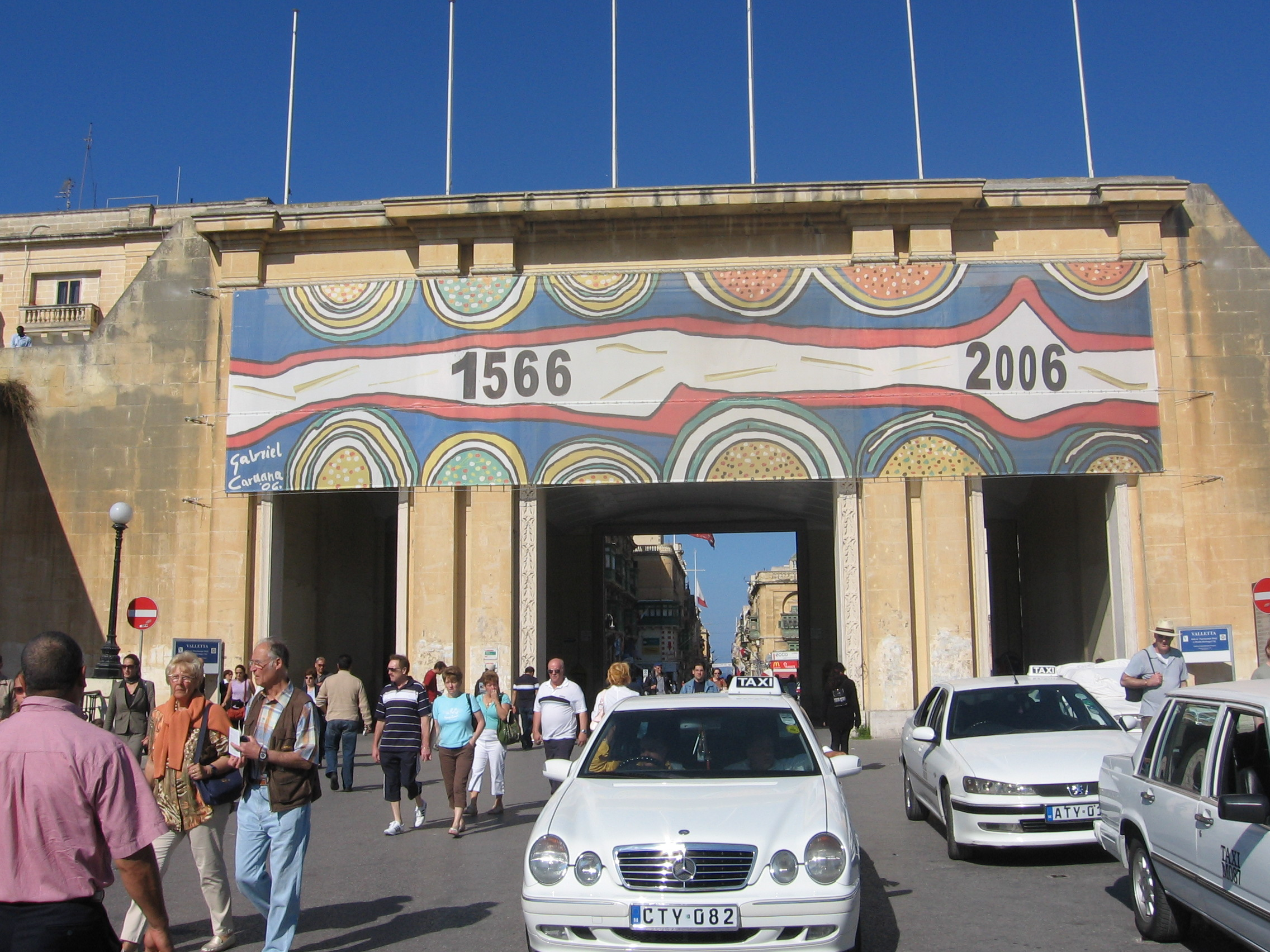 Citygatemalta